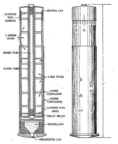 MULTI-STAR SIGNALCARTRIDGE